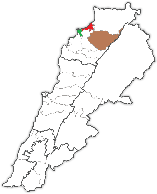 electoral district (2017 Election Law)